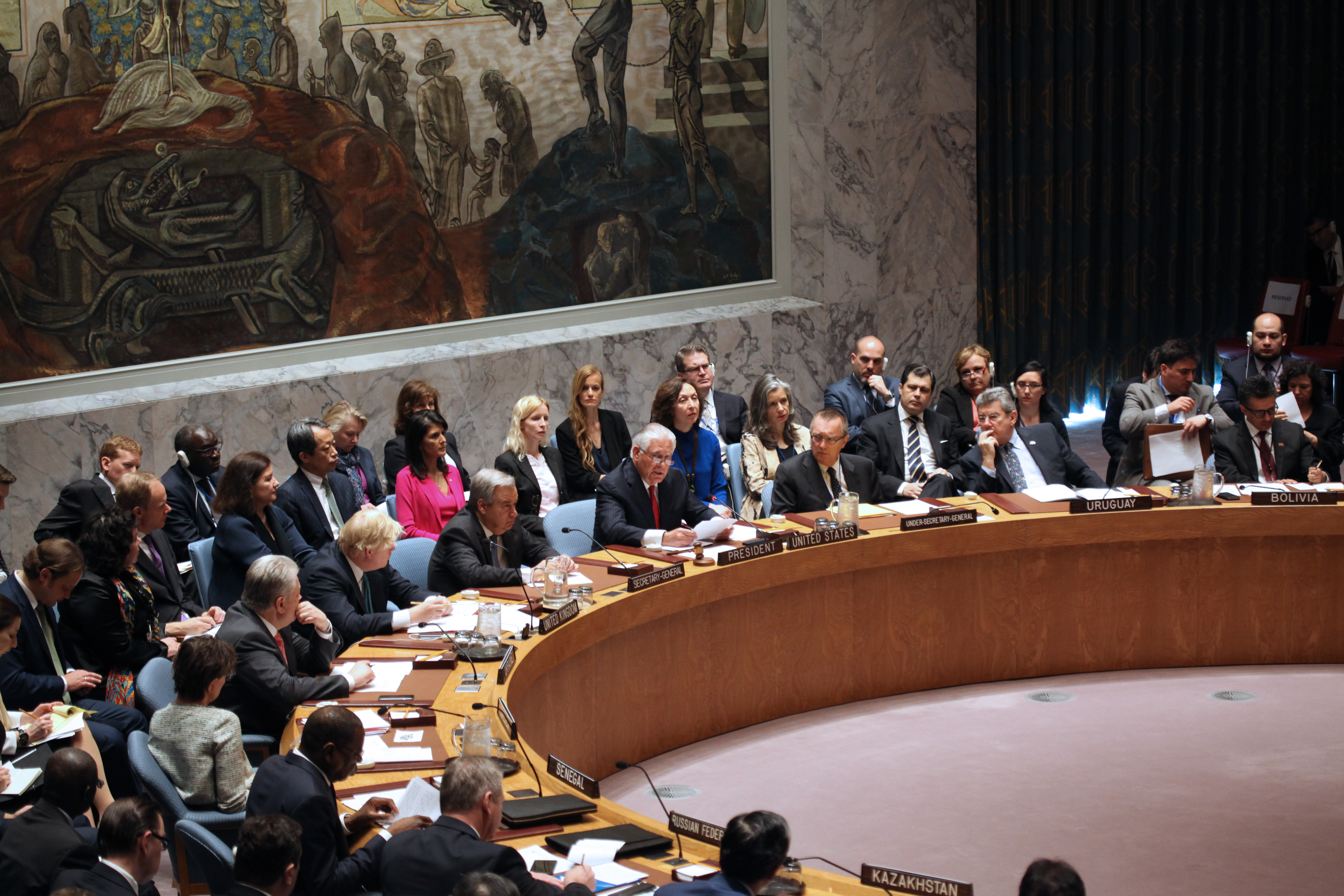 U.S. Secretary of State Rex Tillerson chairs a UN Security Council Meeting on Denuclearization of the Democratic People’s Republic of Korea (DPRK) at the United Nations in New York City on April 28, 2017. State Department photo/ Public Domain]